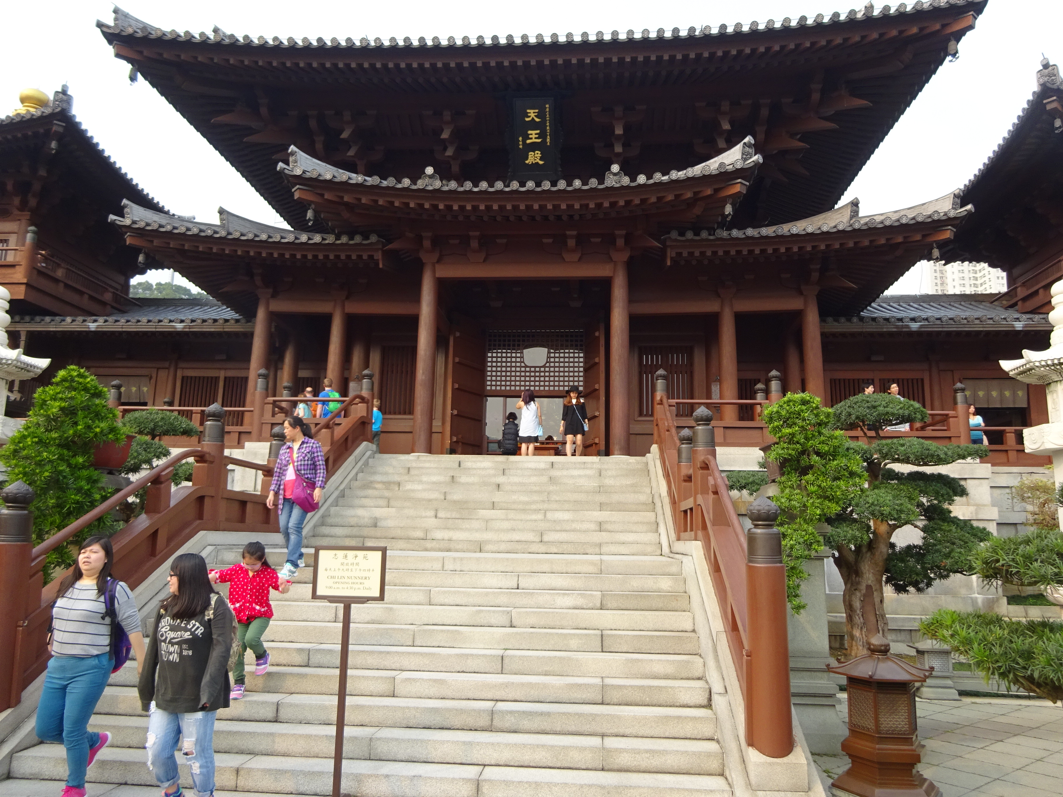 HK NLG 南蓮園池 Nan Lian Garden 天王殿 Hall of Celestial King front entrance 01 male visitor Mar-2016